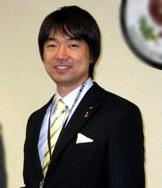 Governor of Osaka Prefecture, Tōru Hashimoto.